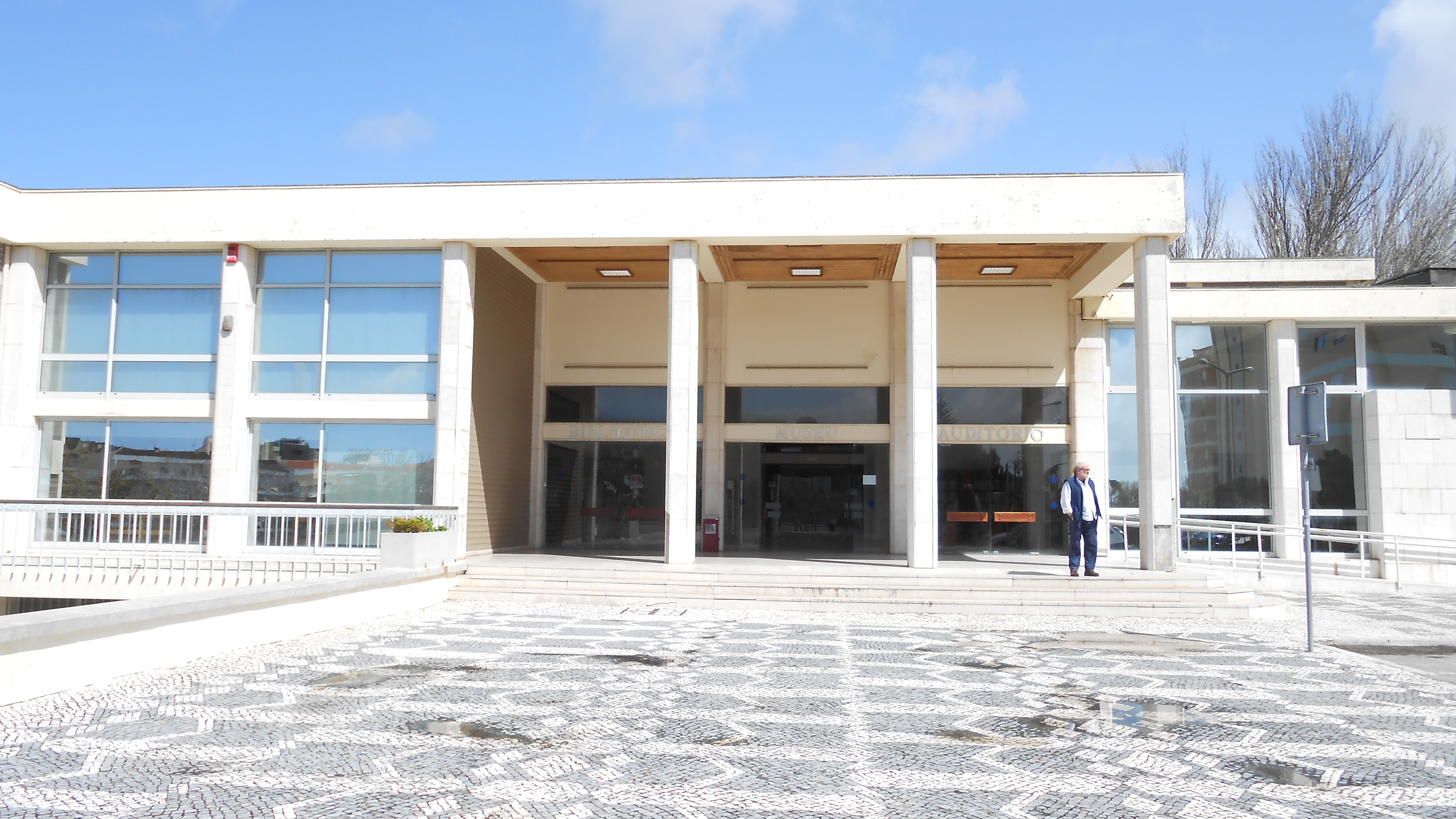 Main entrance to the Museu Municipal Santos Rocha in portuguese seaside town Figueira da Foz.